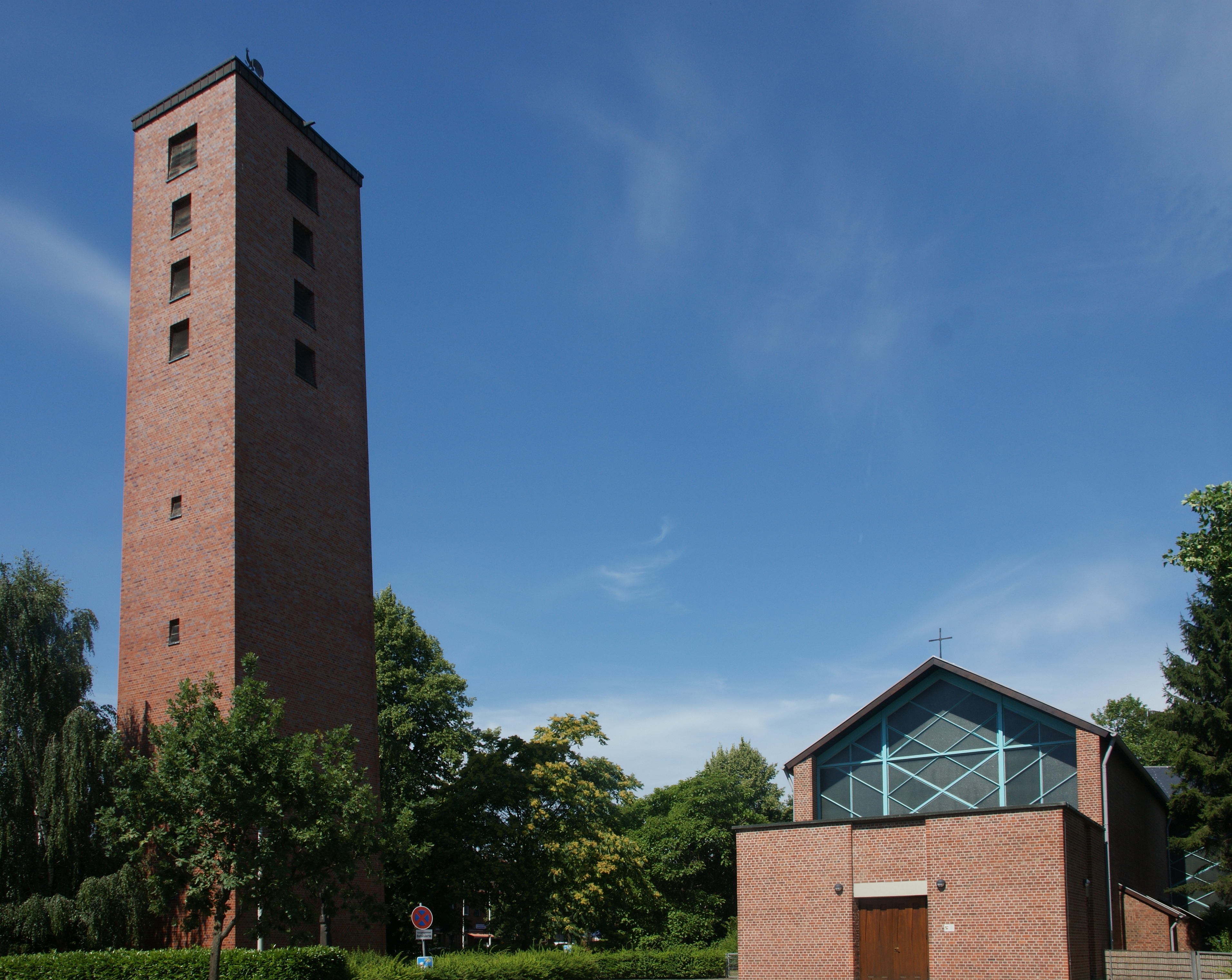 St. Maria Königin in Frechen This is a photograph of an architectural monument. 141